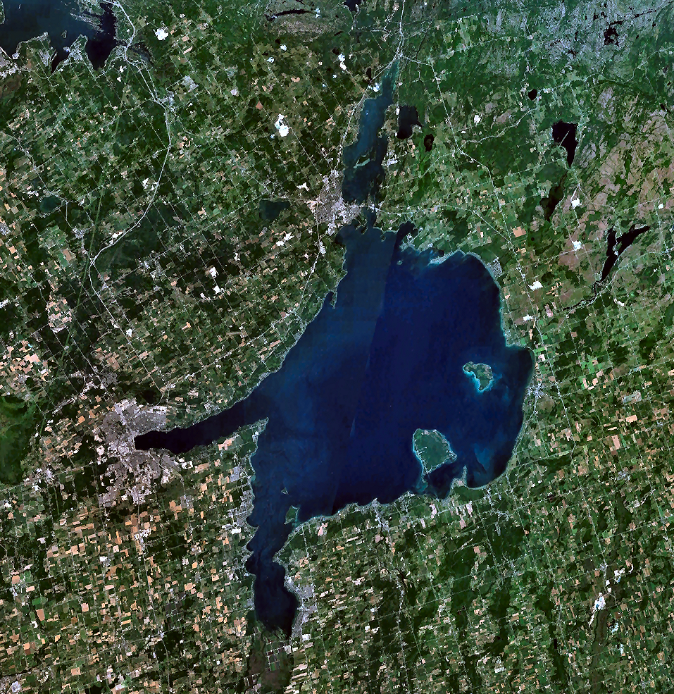 Lake Simcoe, Ontario, Canada.